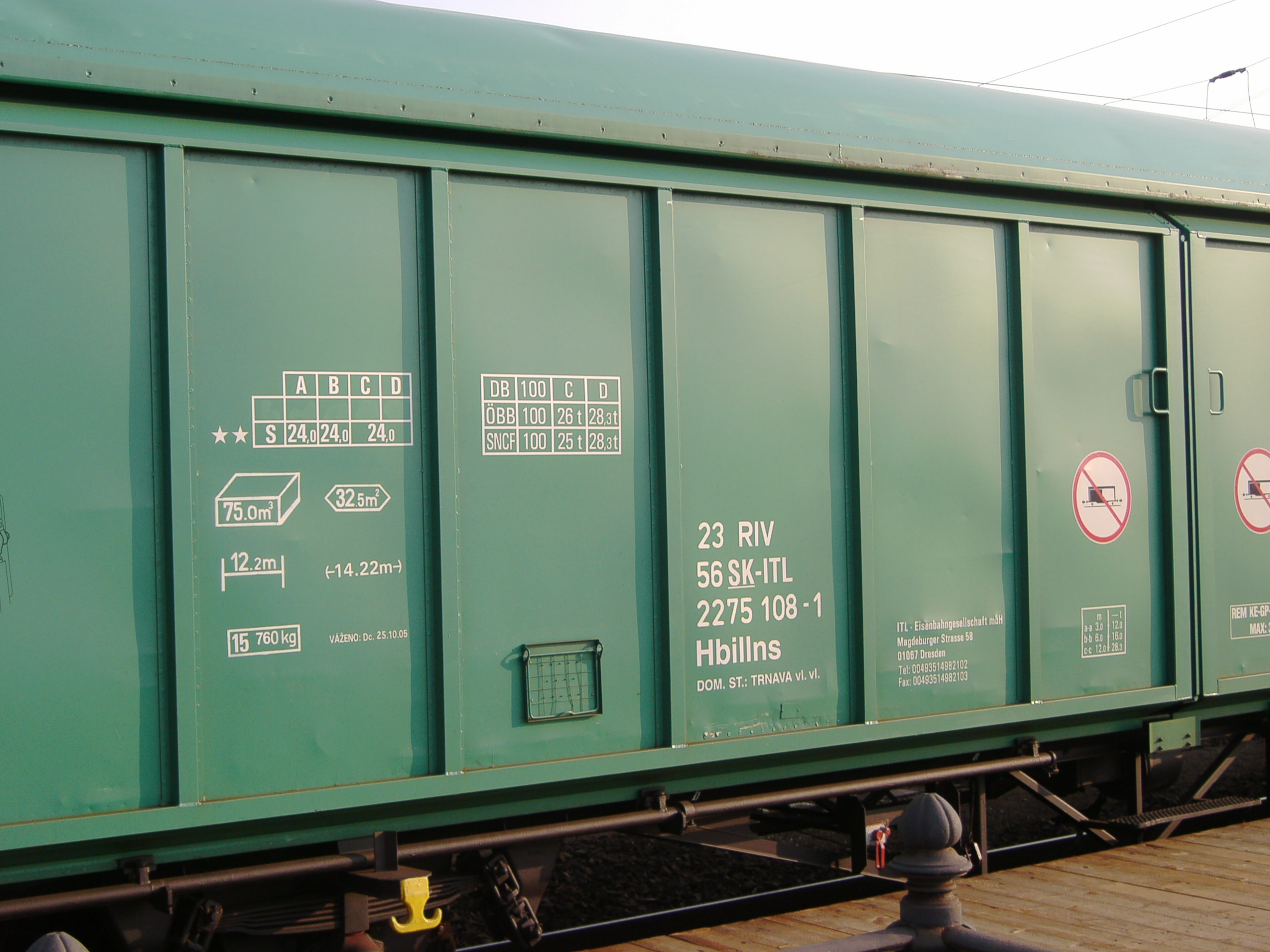 Wagon numbering on an ITL Railways Hbillns goods wagon operating in Slovakia.